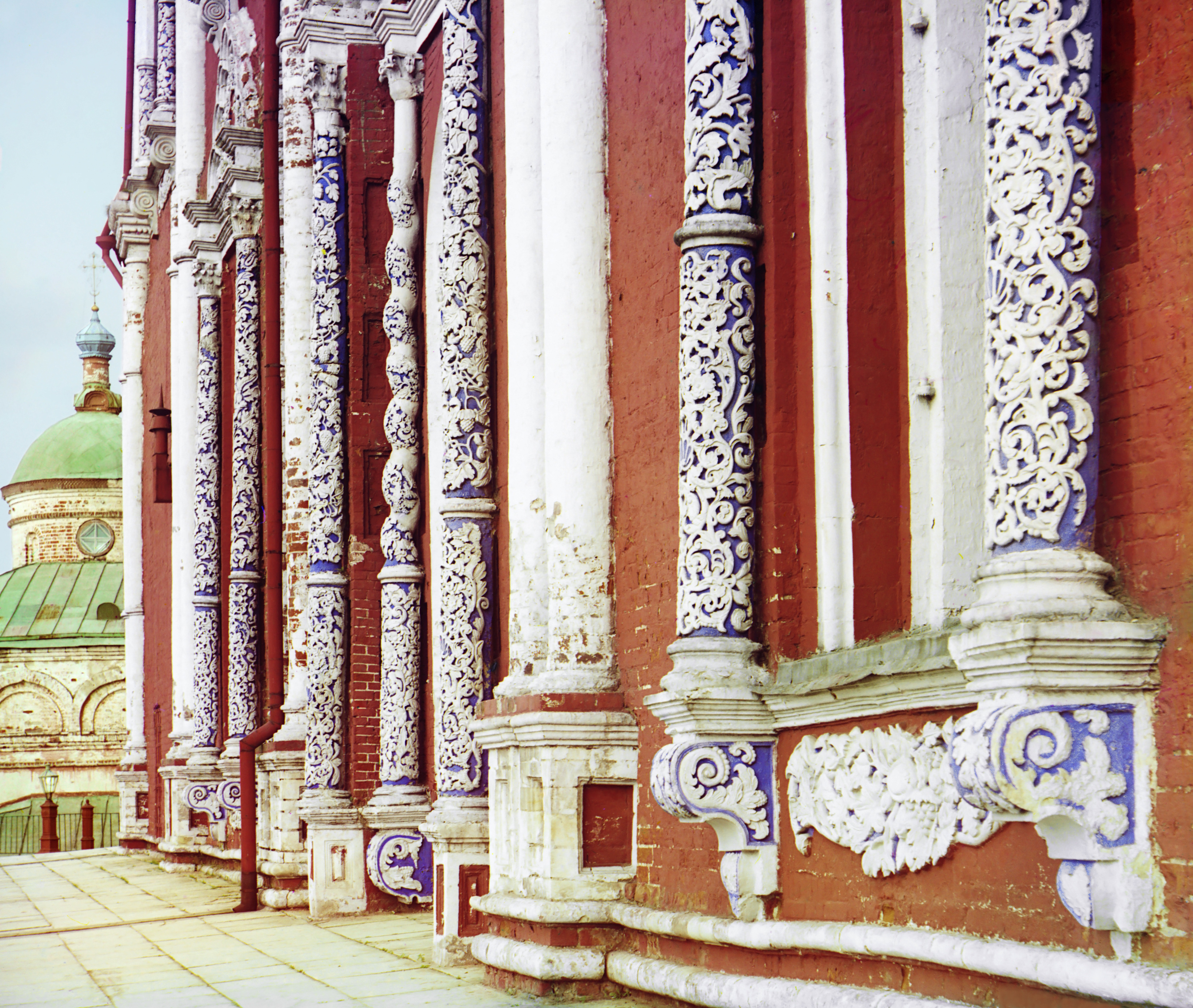 Original Description: Detail of a wall in the Assumption Cathedral. [Riazan].